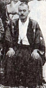 Machino Takema is an Imperial Japanese Army Colonel